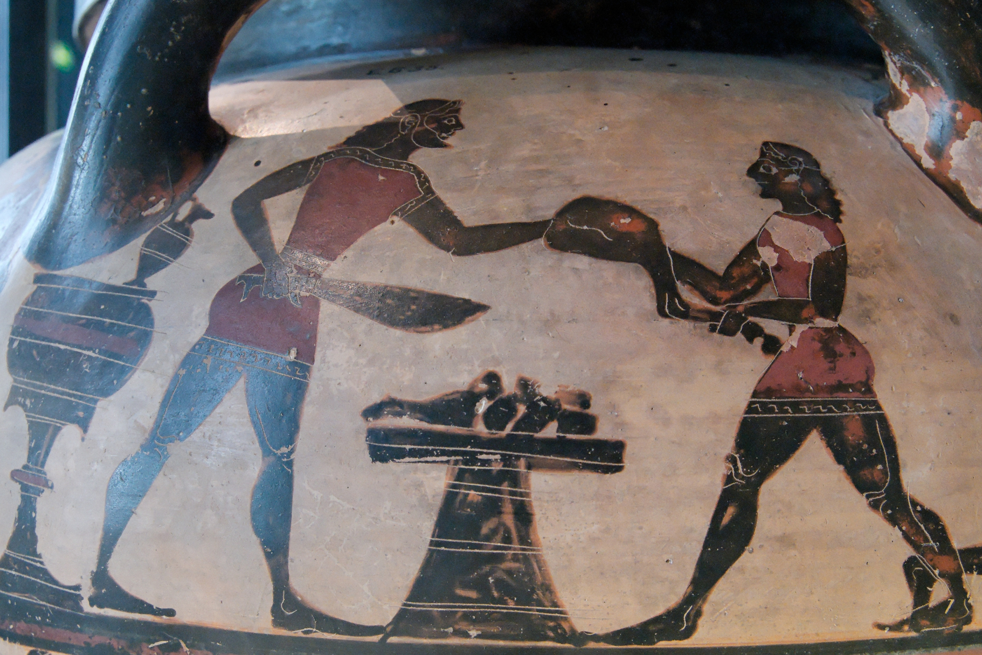 Preparations for the symposium. Upper tier, side A (under the handle) of the so-called Eurytios Krater, a Corinthian column-krater, ca. 600 BC. From Cerveteri.